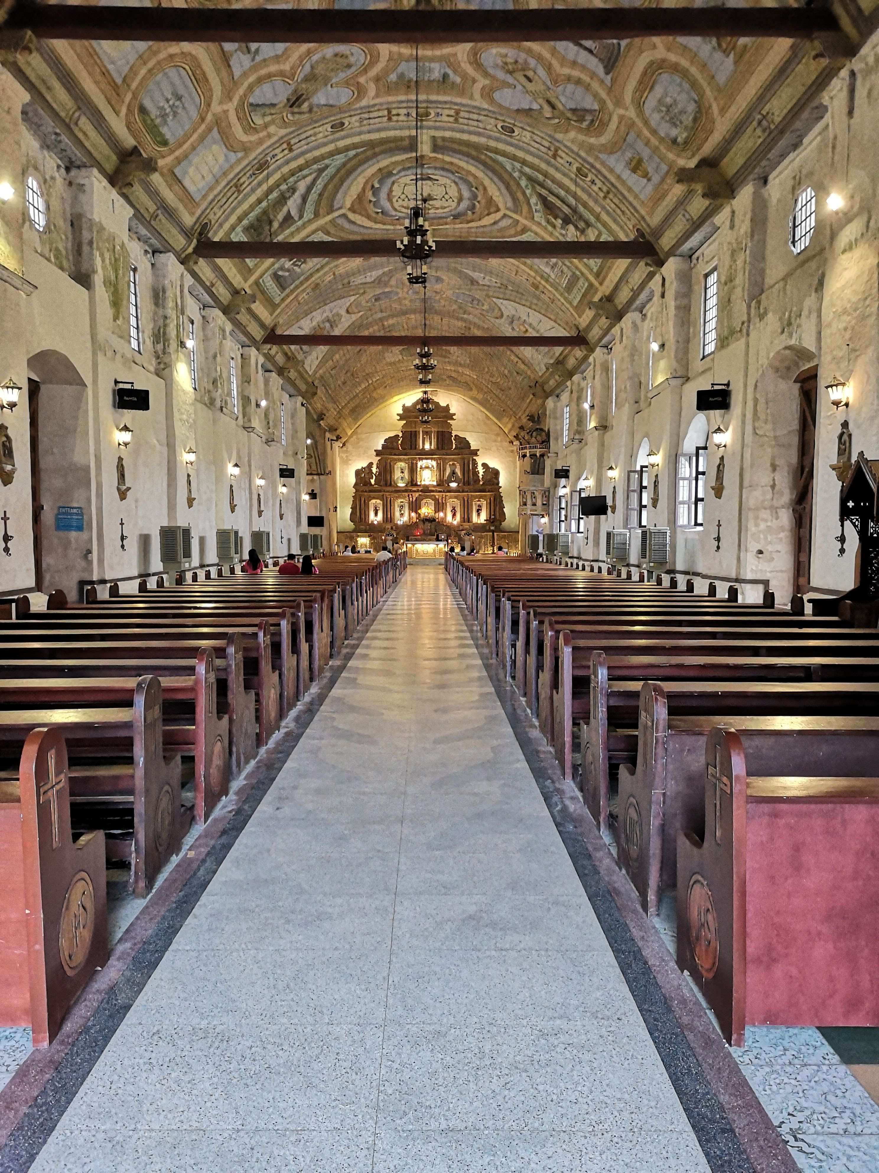 Intérieur de l'église de Boljoon